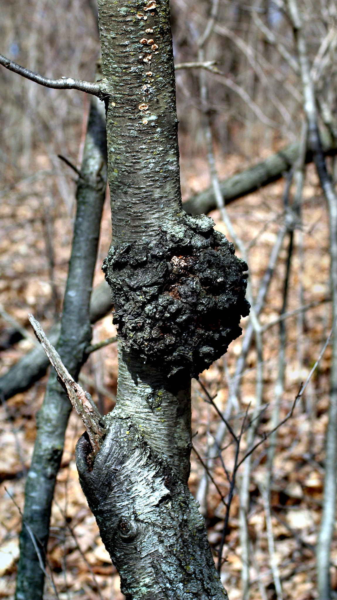 Black knot infection of Black Cherry in Minnesota.